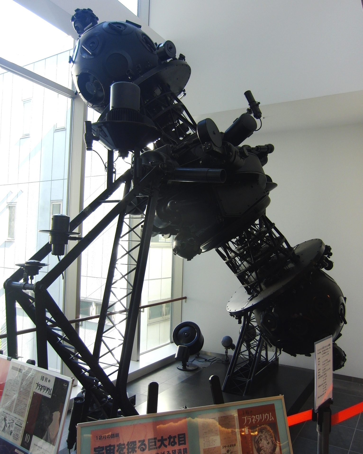 Planetarium projector used at Gotoh Planetarium,Shibuya, Tokyo, Japan.Zeiss IV Planetarium projector.